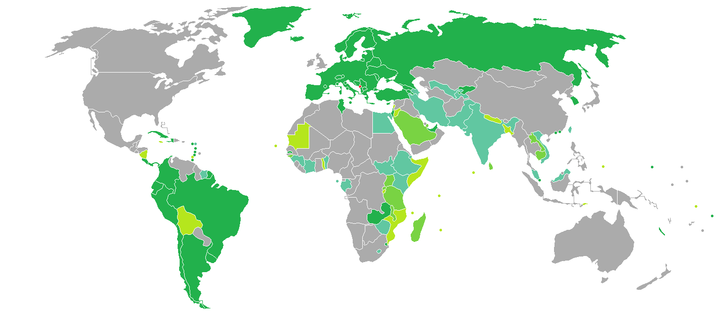 Visa requirements for Montenegrin citizens Montenegro Visa free access Visa on arrival eVisa Visa available both on arrival or online Visa required